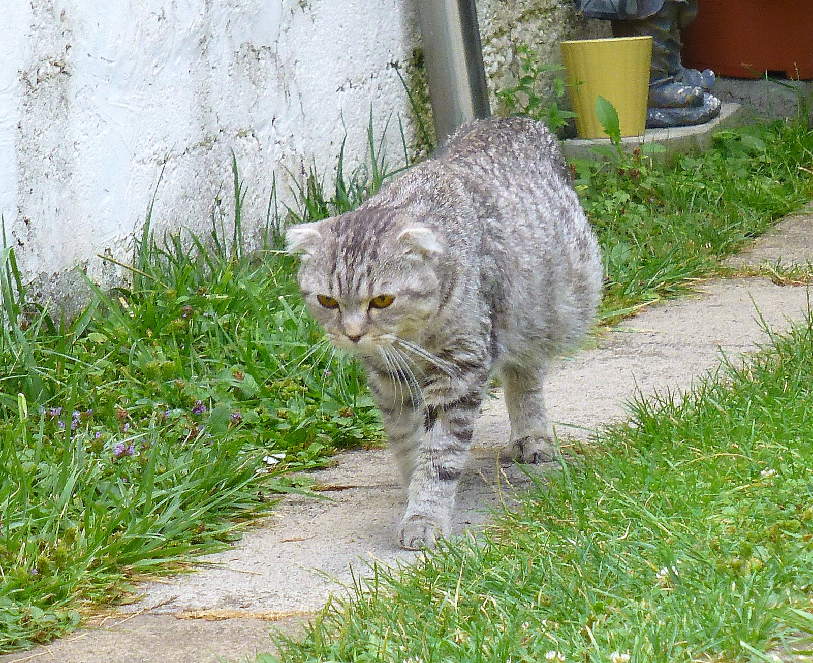 Scottish Fold cat with FIP, obvious liquid accumulations in the abdomen, two days before euthanasia.